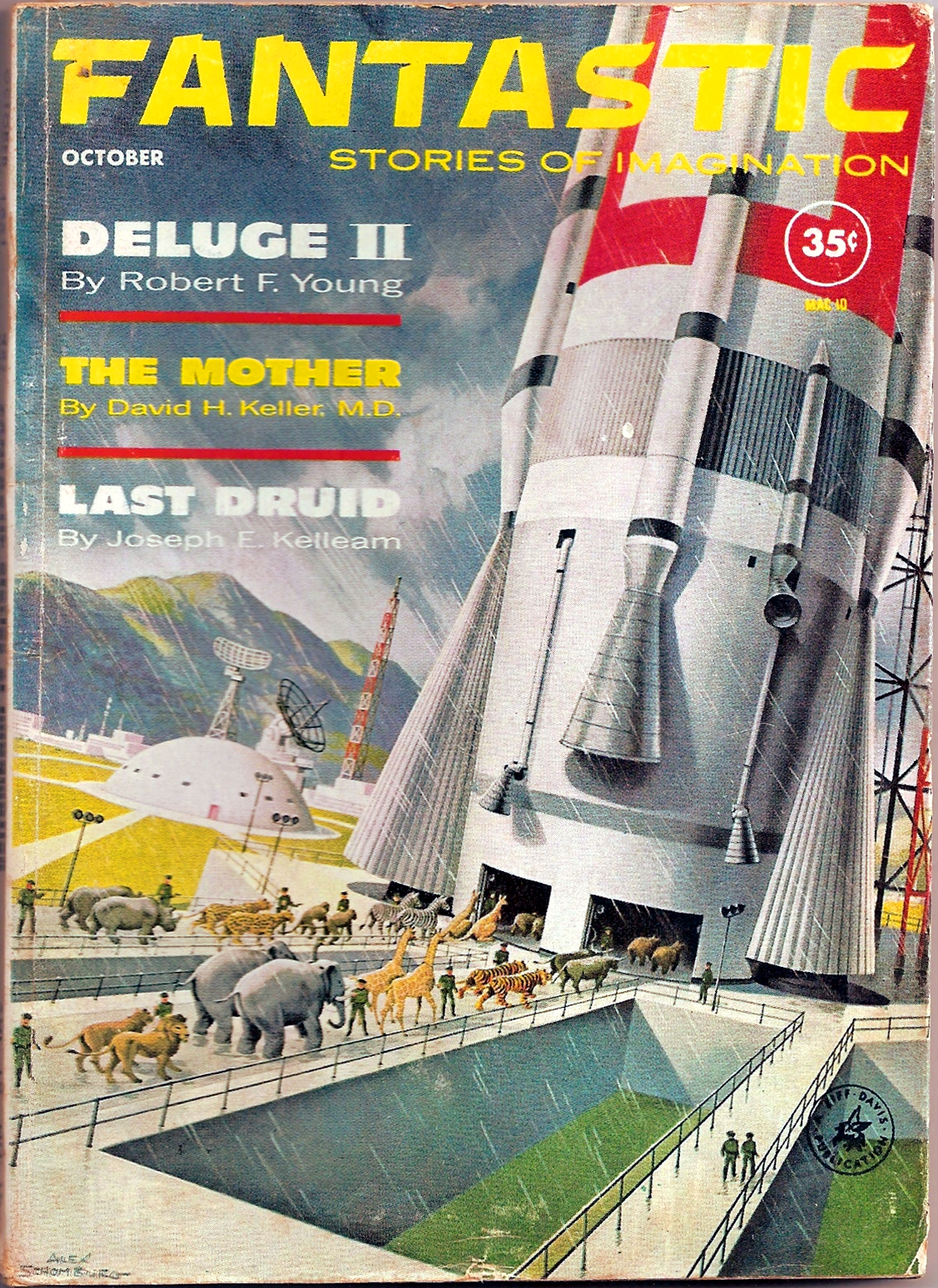 Cover of October 1961 issue of Fantastic (magazine). Artist is Alex Schomburg. Copyright was either Schomburg, or more likely Ziff-Davis, who published the magazine.